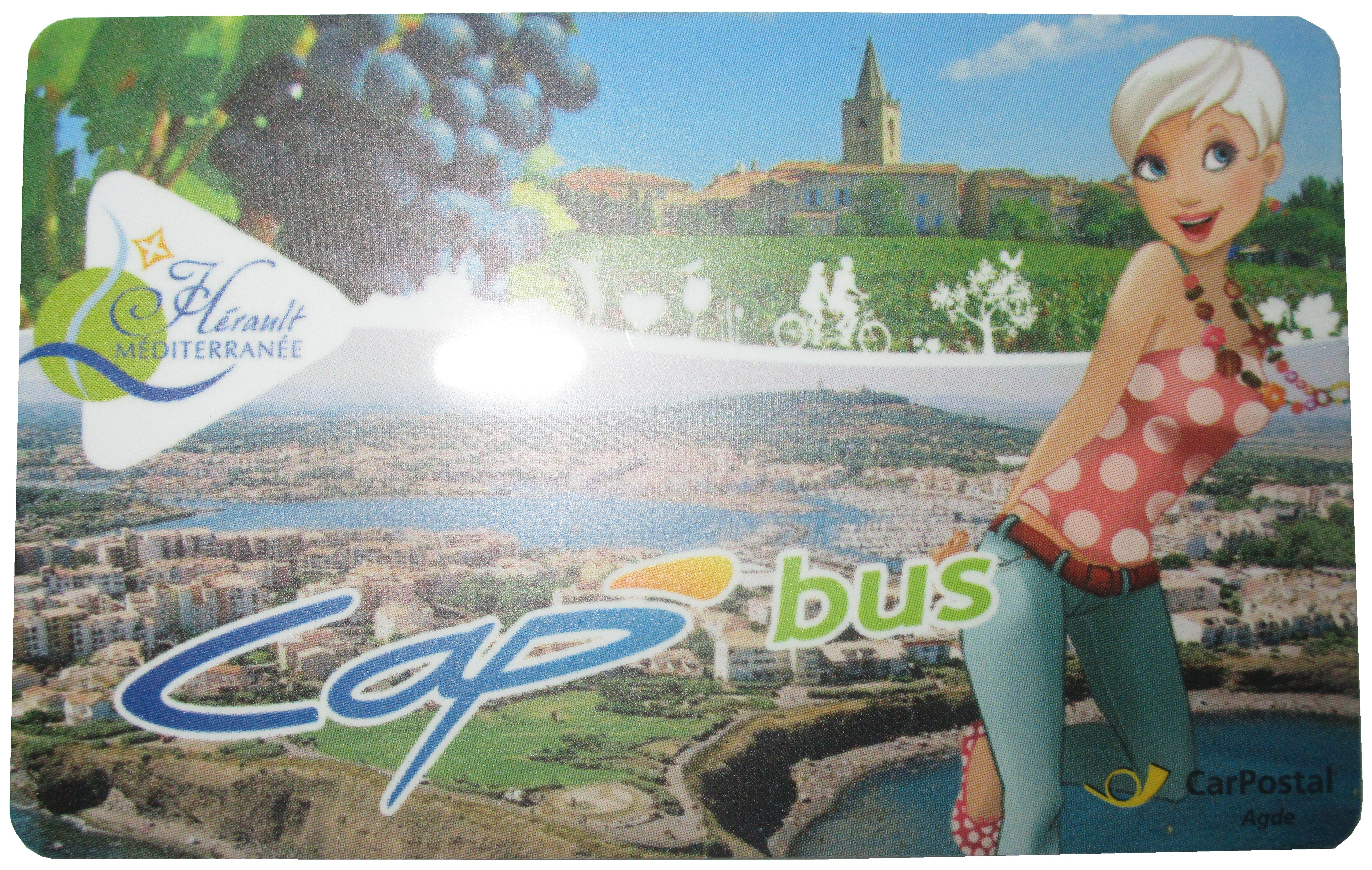 A card of the bus network Cap’Bus (Agde).